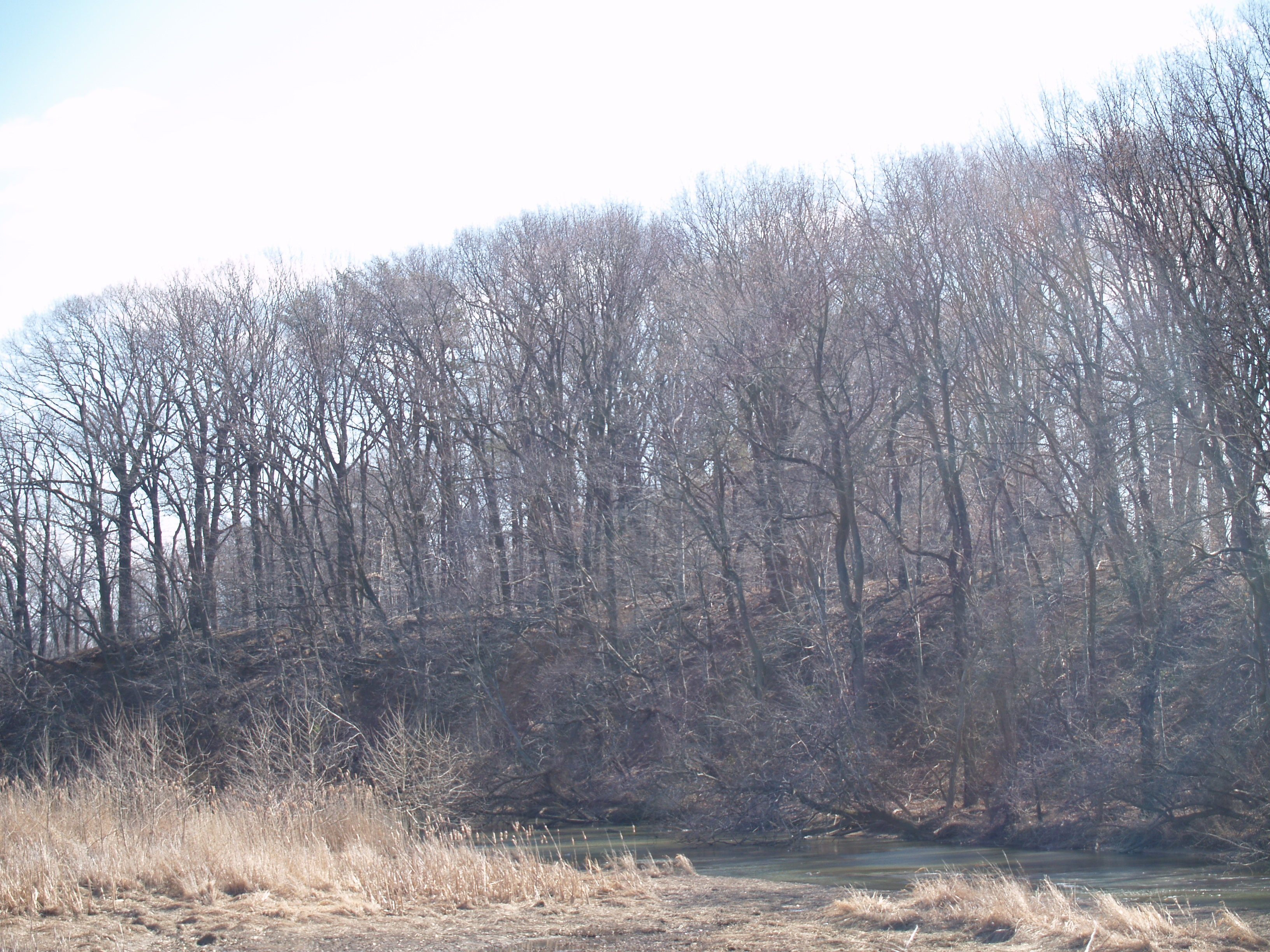 Bluff above Drawyer Creek, a tributary to the Appoquinimink River in Delaware from 2009.